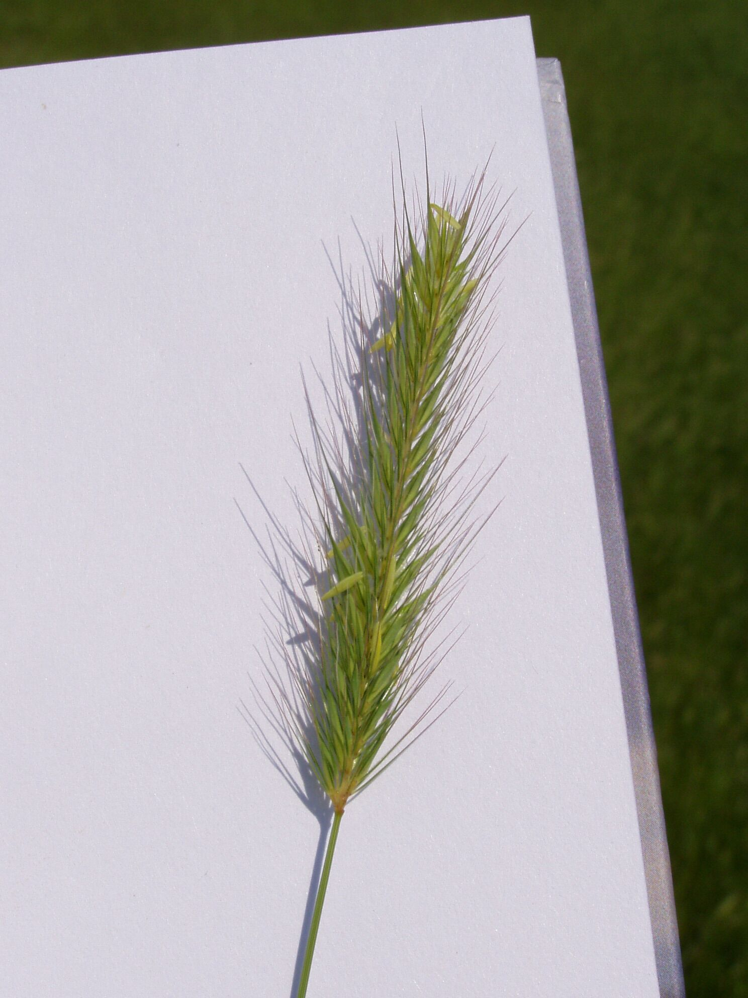 Hordeum secalinum, inflorescence; photo taken in Elbmarschen near Hamburg, Germany